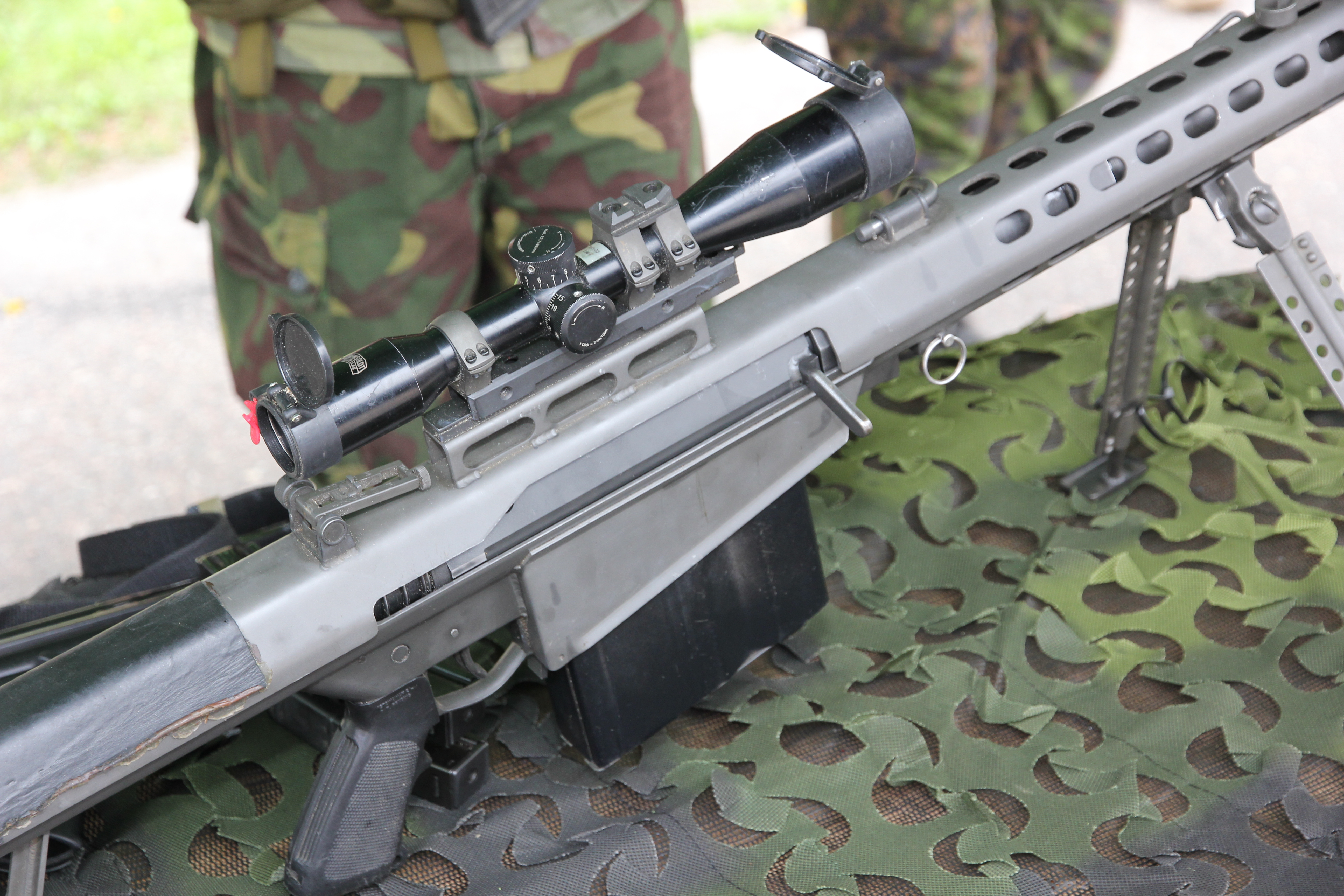 12,7 TKIV 2000 (Barrett M82) anti-materiel rifle on display during Finnish Defence Forces 2014 Flag day in Lappeenranta Rakuunanmäki.